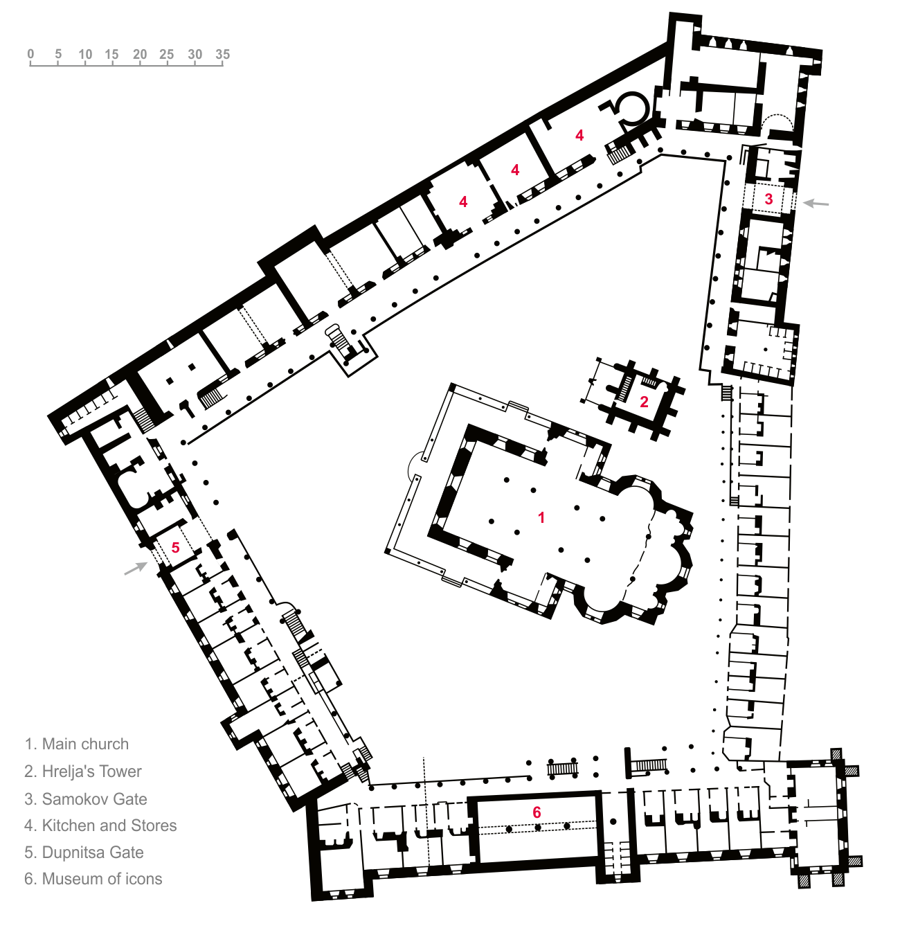 Rila Monastery - plan. Based on:[1]